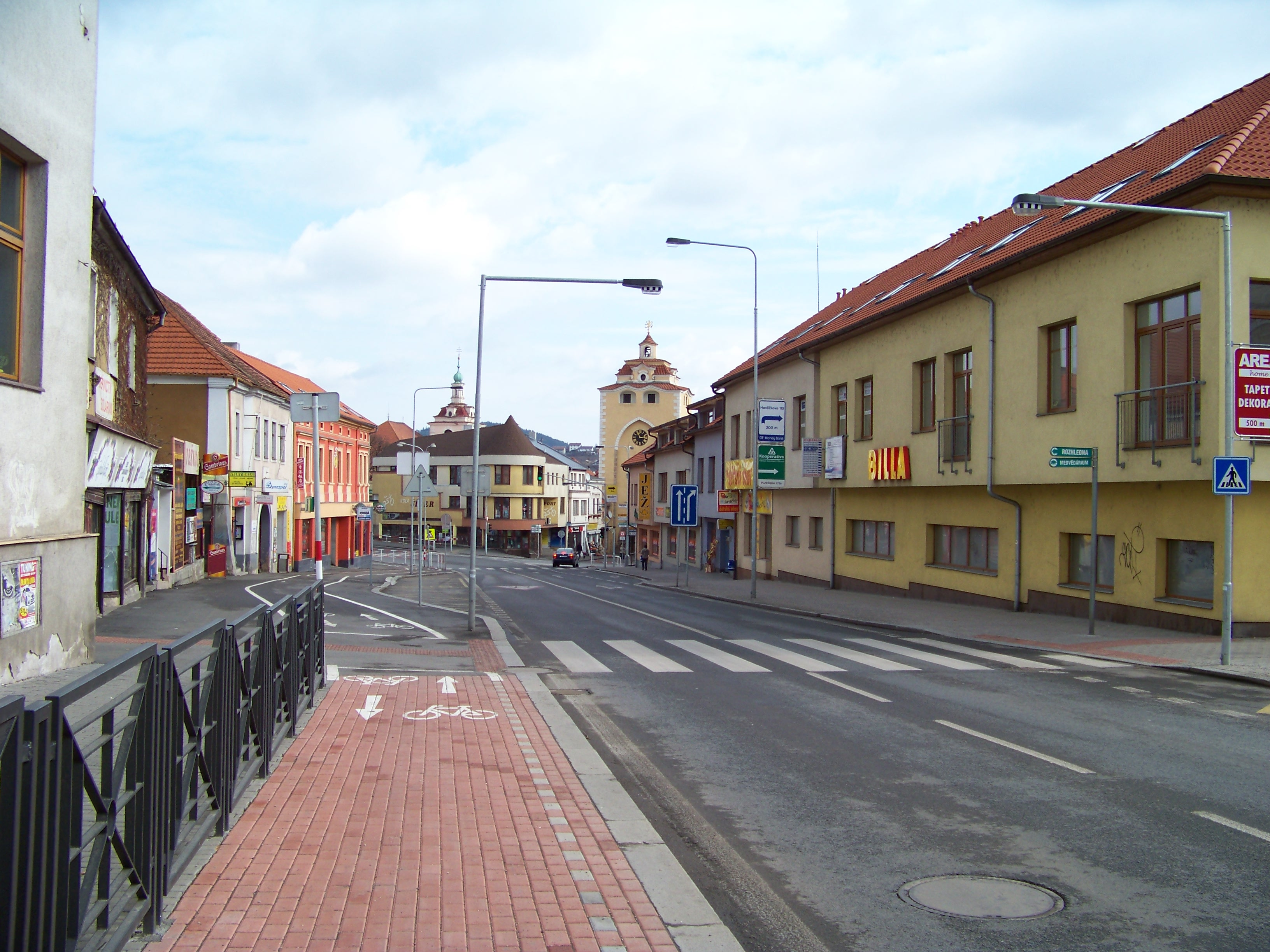 Beroun, Beroun District, Central Bohemian Region, the Czech Republic. Plzeňská Street.